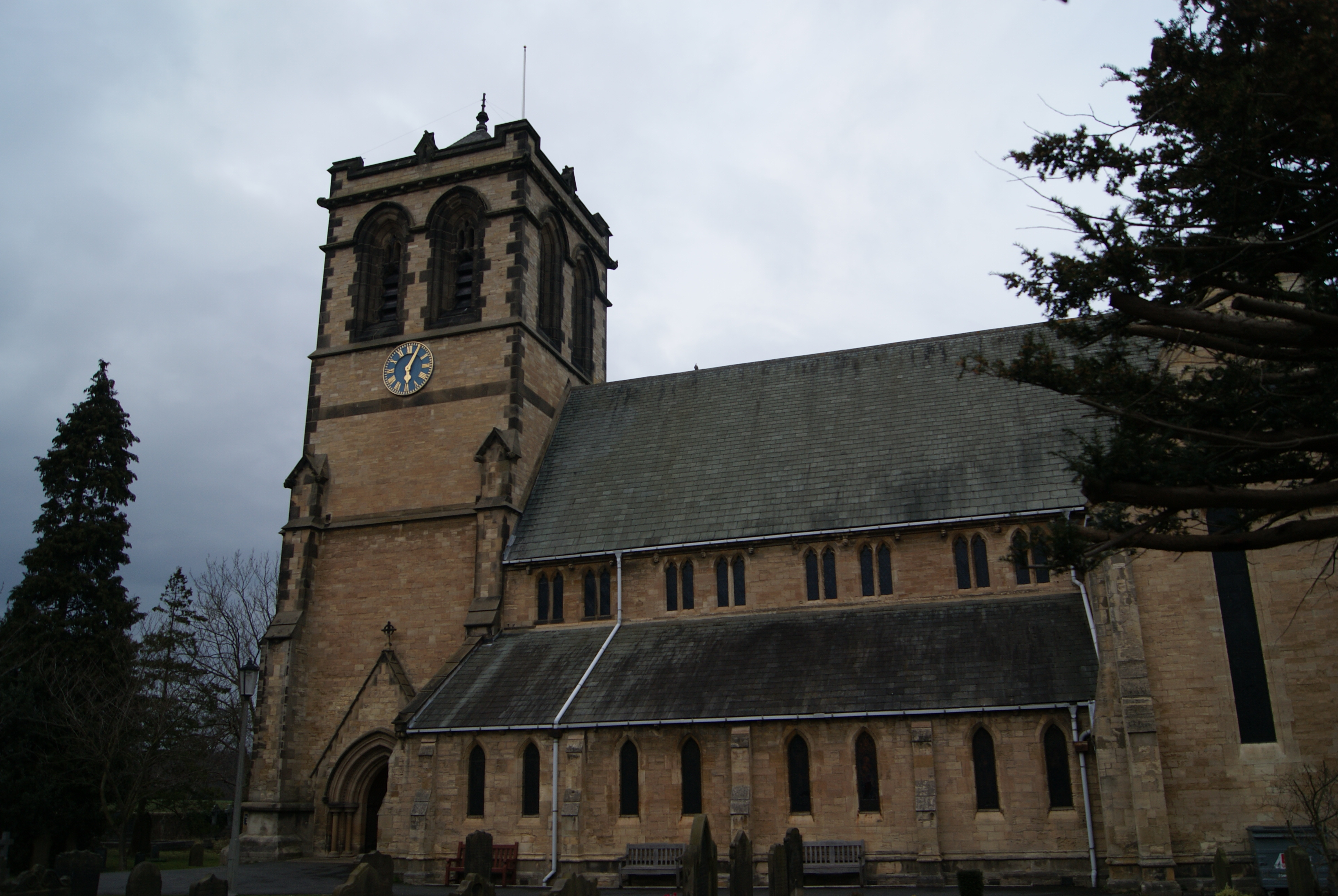 Parish Church of St. Mary the Virgin, High Street, Boston Spa, West Yorkshire. Taken on the evening of Wednesday the 24th of March 2010.